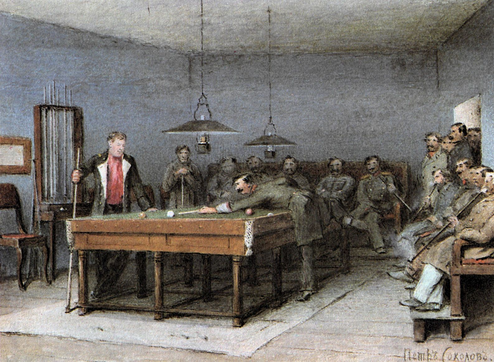 The café in Lebedyan: Prince N and ex-lieutenant Viktor Hlopakov play billiards.